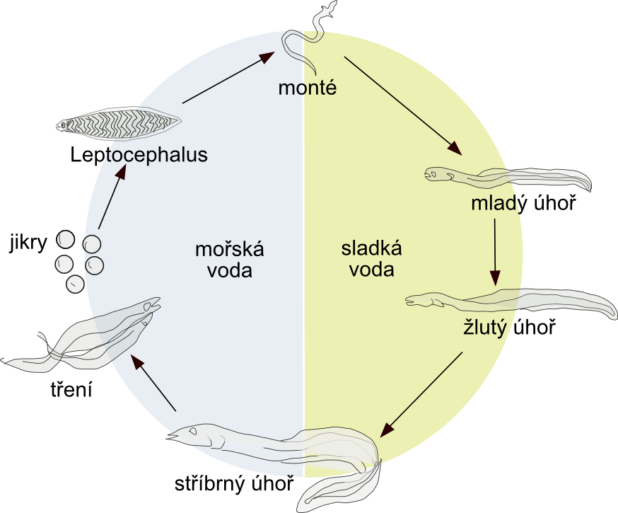 Eel life cycle in Czech.